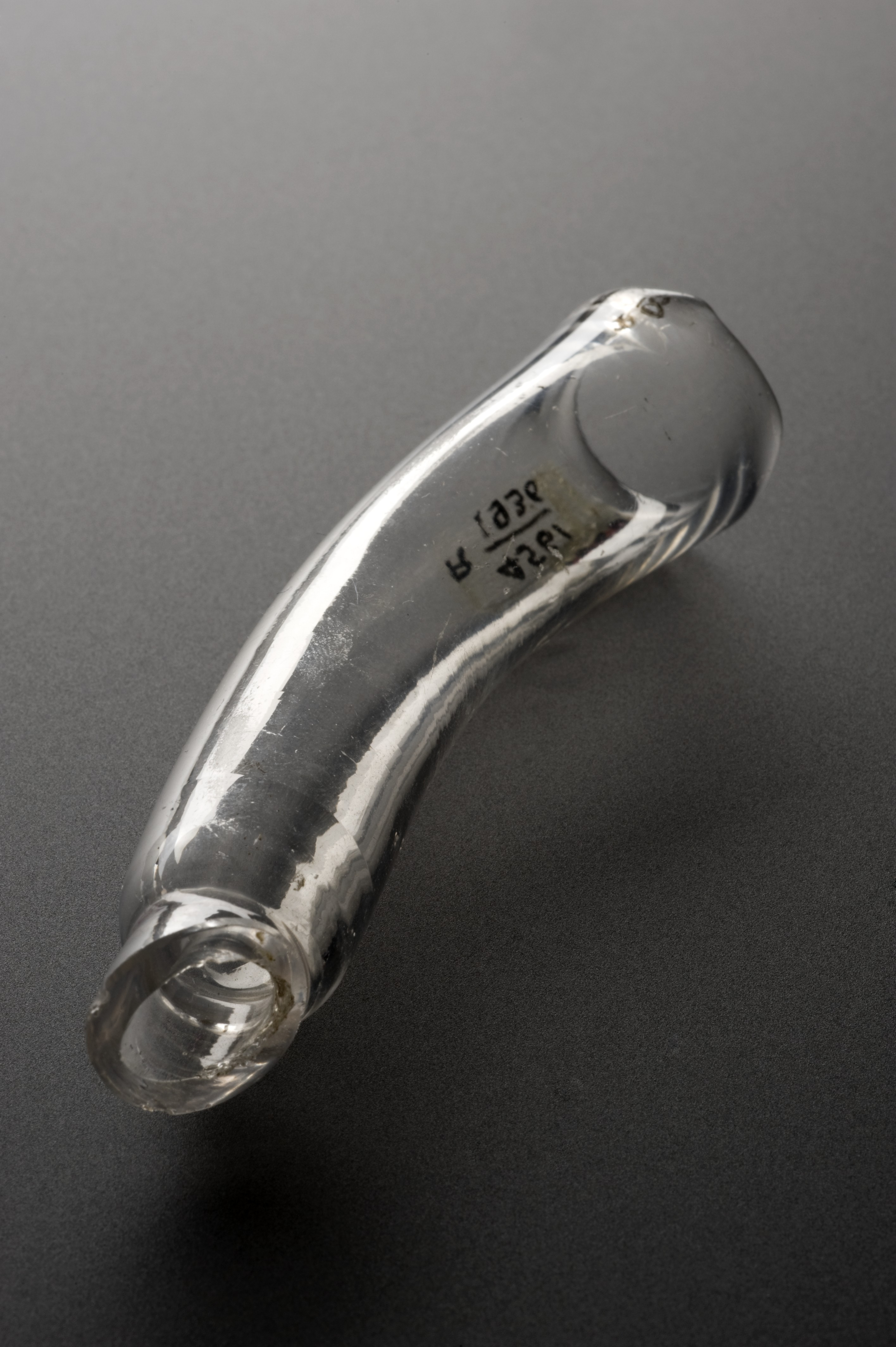 Leeches were used in bloodletting, a cure intended to balance the four humours. This tube was used to transport leeches from place to place and may have been used to apply them to the body. Leeches were gathered from streams and sold on by apothecaries. Leeches are a type of worm with suckers at both ends of the body; they suck blood until their bodies are engorged. Leeches are sometimes used today following plastic and reconstructive surgery as they help restore blood flow and circulation